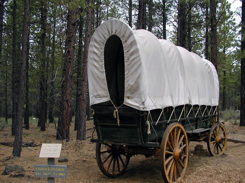 A replica of one of the original covered wagons that travelled to Oregon in the 1800s. This one was built in the 60s and used as a vehicle in a historical re-enactment.